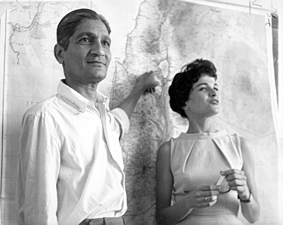 Pakistani Jews in ulpan Hebrew class in Beersheba, Israel after making Aliyah